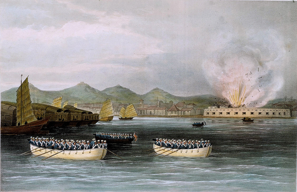 The keep of the French Folly Fort blown up by the Royal Sappers and Miners on 5 April 1847.